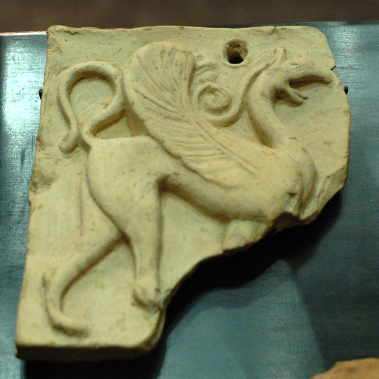 Votive relief with griffin, from Praesos (Crete). Terracotta, ca. 630-600 BC.